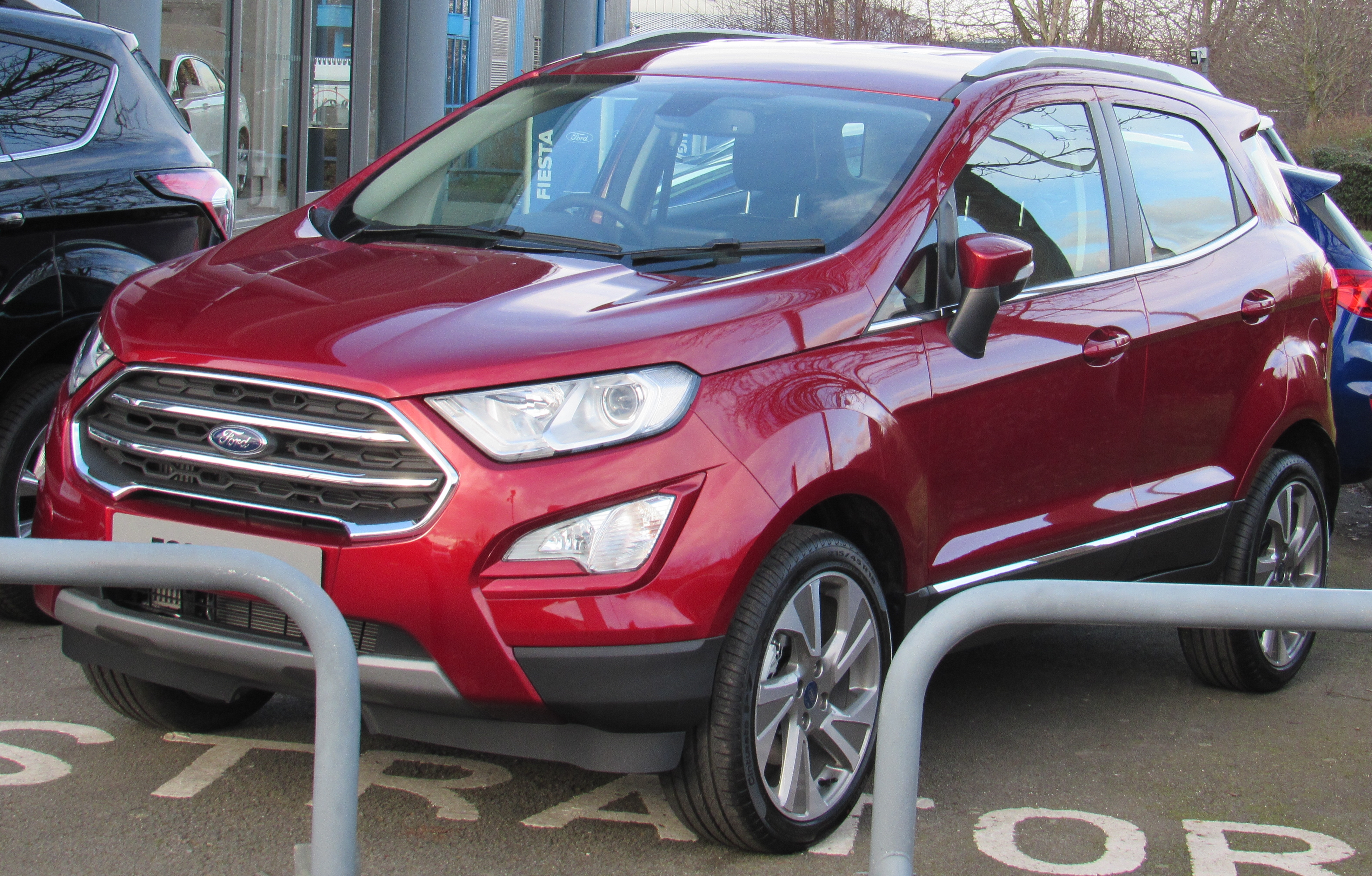 2018 Ford Ecosport facelift Front Taken in Leamington Spa